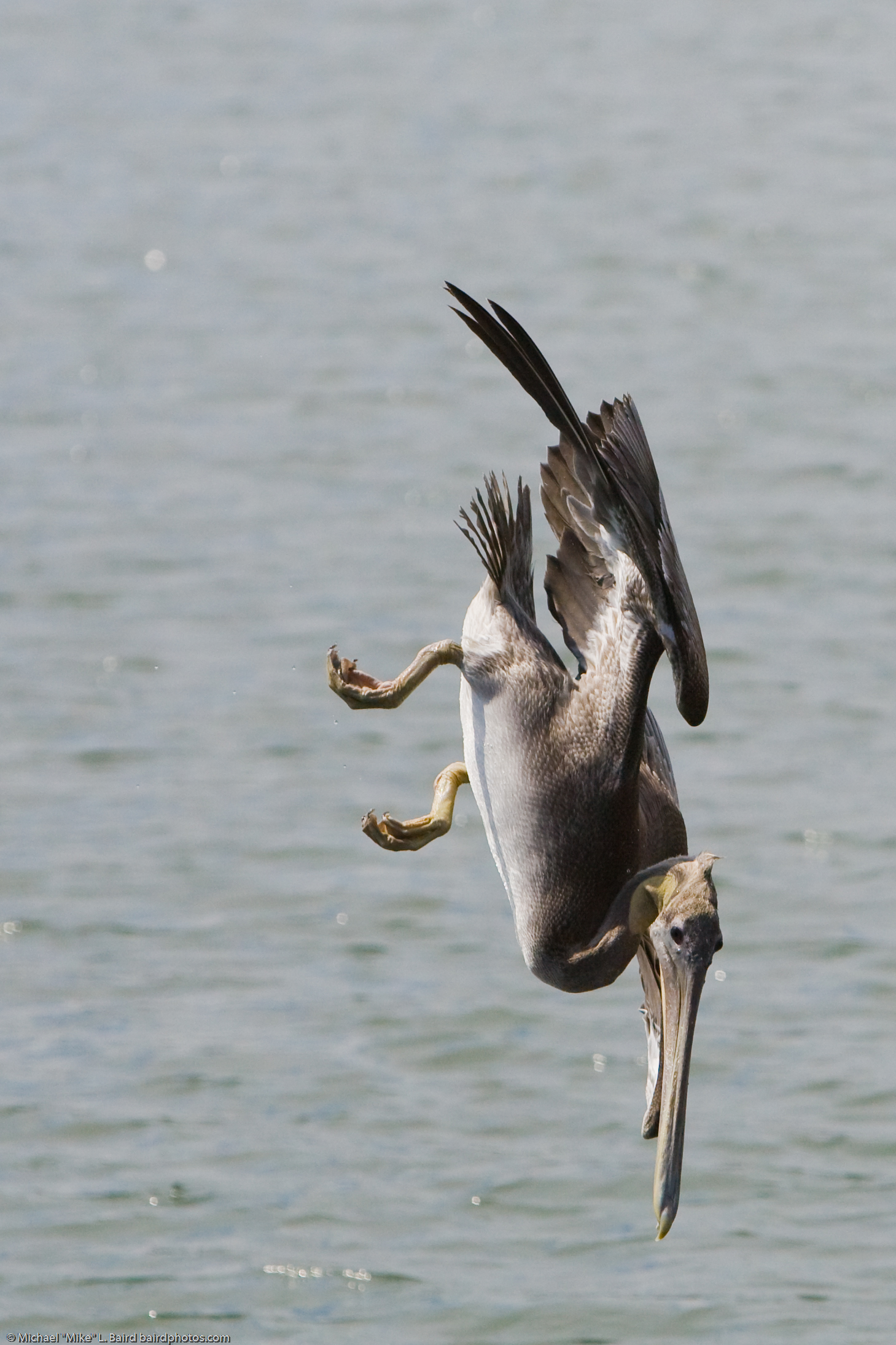 Brown Pelican 3/3 (Pelecanus occidentalis) diving for food, in Morro Bay State Park Marina 09 Sept 2008, Morro Bay, CA. (used in a NYPL article on the Gulf Oil Spill Disaster ) Tech note: 1/8000th sec. helped to guarantee a sharp capture of this fast diving bird. Ten frames per second allowed me to select the pose and height from the water shown here. June 22, 2010. where it says "This spectacular image of the Brown Pelican in action was shot at Morro State Park Marina taken on September, 09, 2008 by amateur photographer "Mike" Michael L.Baird. View Mr. Baird's other stunning images of the Brown Pelican on Flickr." Valerie Wingfield Specialist/Preservation Representative Library Services Center. LIC Manuscripts and Archives Division vwingfield [at} nypl d o t org 25 June 2010 Sierra LCub Daily Ray of Hope request from cara.longpre {at] sierraclub d o t org : Subject: Image for Daily Ray of Hope; Date: 25th June, 2010. Hi Mike, We are interested in using your photo for the Sierra Club's Daily Ray of Hope. Could you tell us where the image was taken, and how would you like to be cited? In order to use your photo in the Daily Ray of Hope, we need the license to be Non-Commercial. Thanks! --You can sign up for the Daily Ray of Hope here